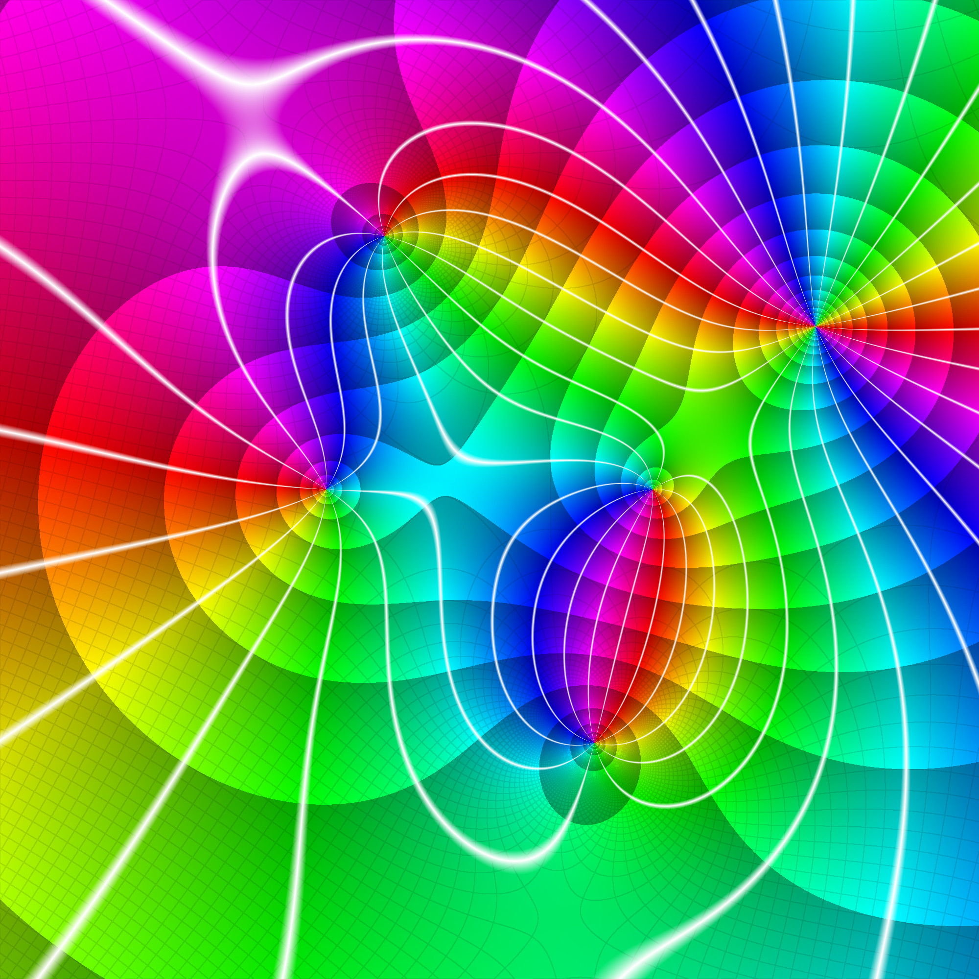 Domain coloring of the complex function f ( x ) = ( x 2 − 1 ) ( x − 2 − i ) 2 x 2 + 2 + 2 i {\displaystyle f(x)={\tfrac {(x^{2}-1)(x-2-i)^{2 {x^{2}+2+2i } . Phase is coded by the hue and module by the value.